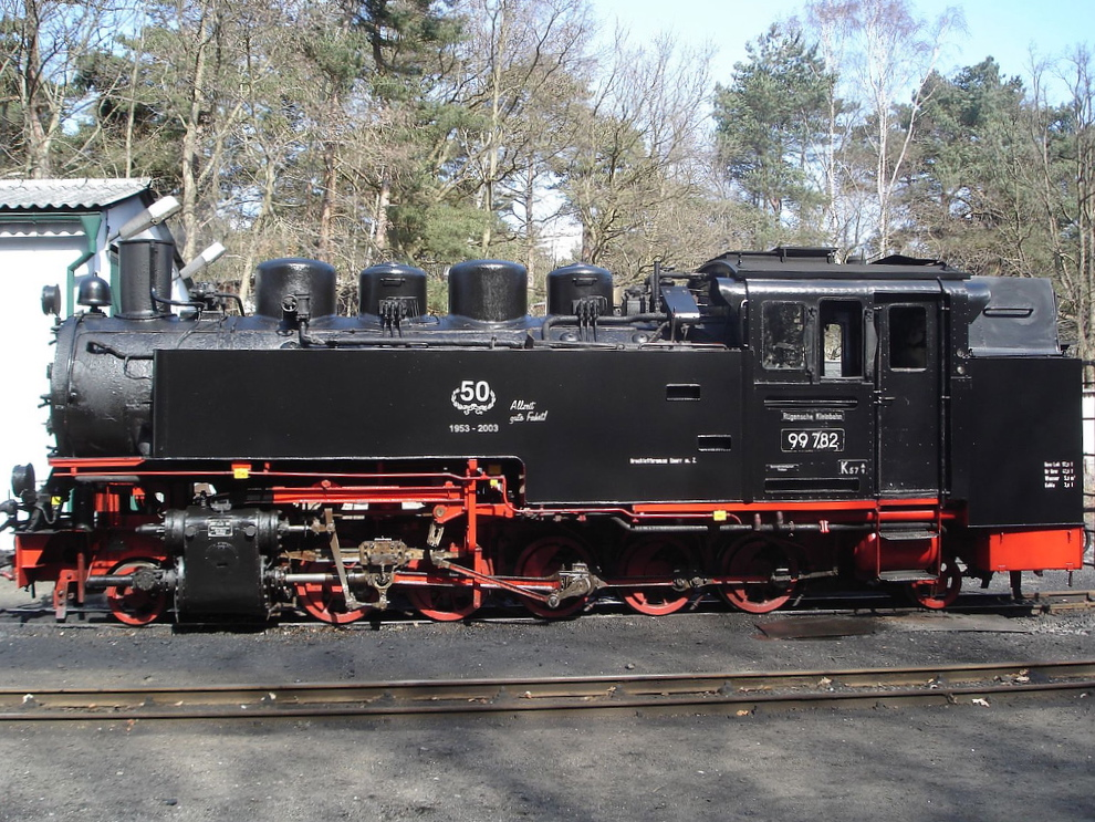 Steam locomotive 99 782 @ Rügen